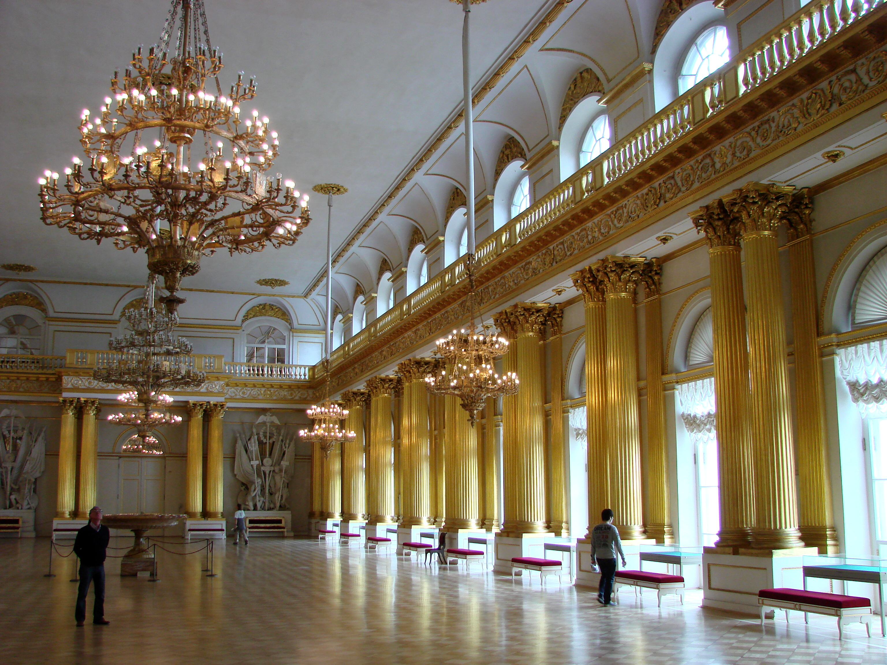 Armorial Hall inside the Hermitage Museum, St. Petersburg, Russia. May 2008.